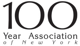 This image is the official logo of The Hundred Year Association of New York.